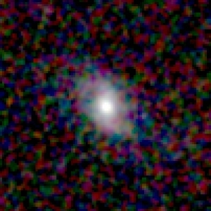 Galaxy NGC 415